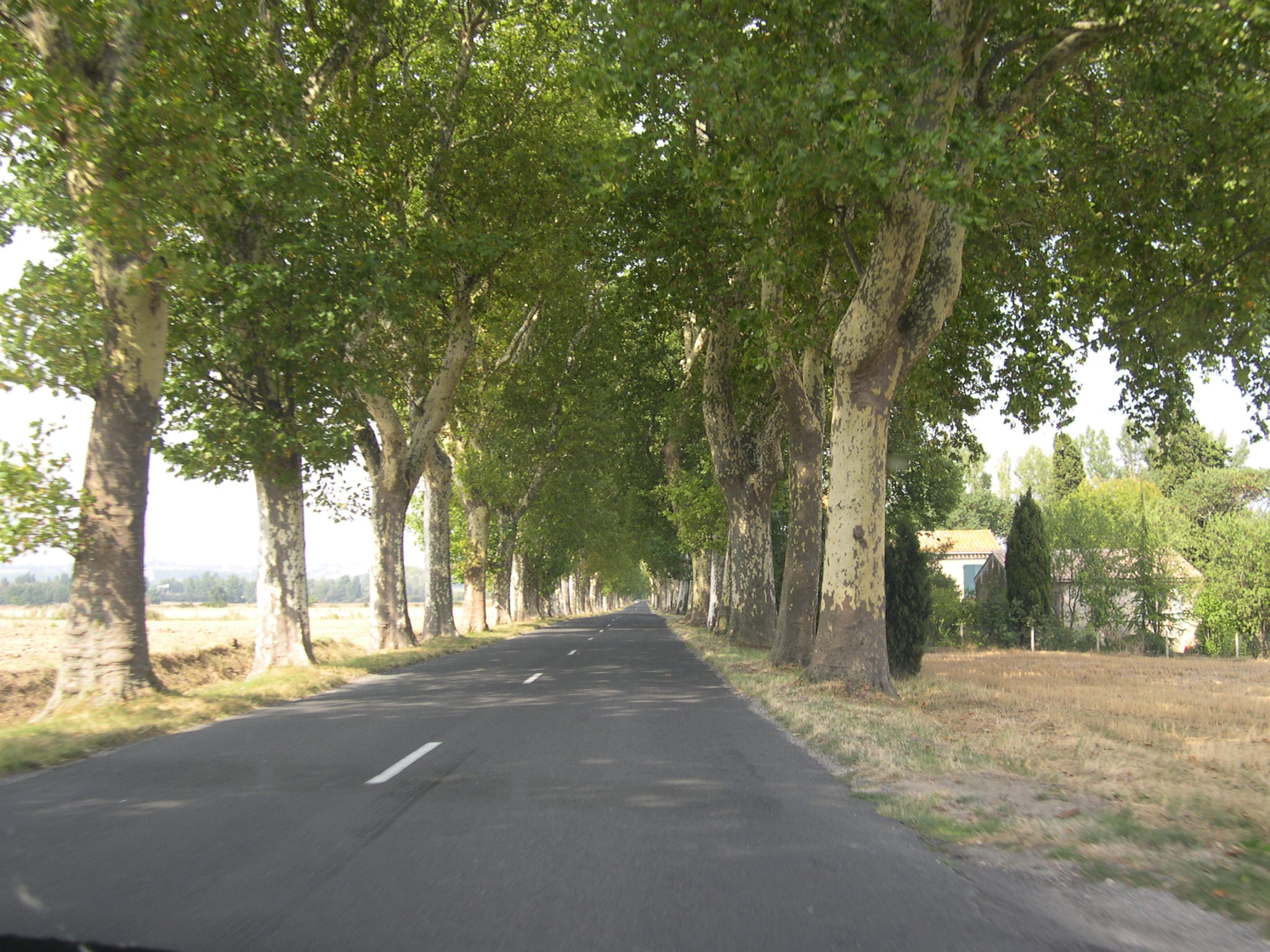 A typical French rural road near Castelnaudary.